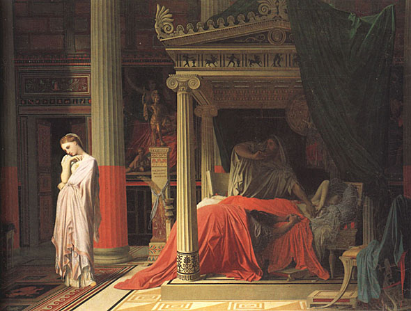 Antiochus and Stratonice